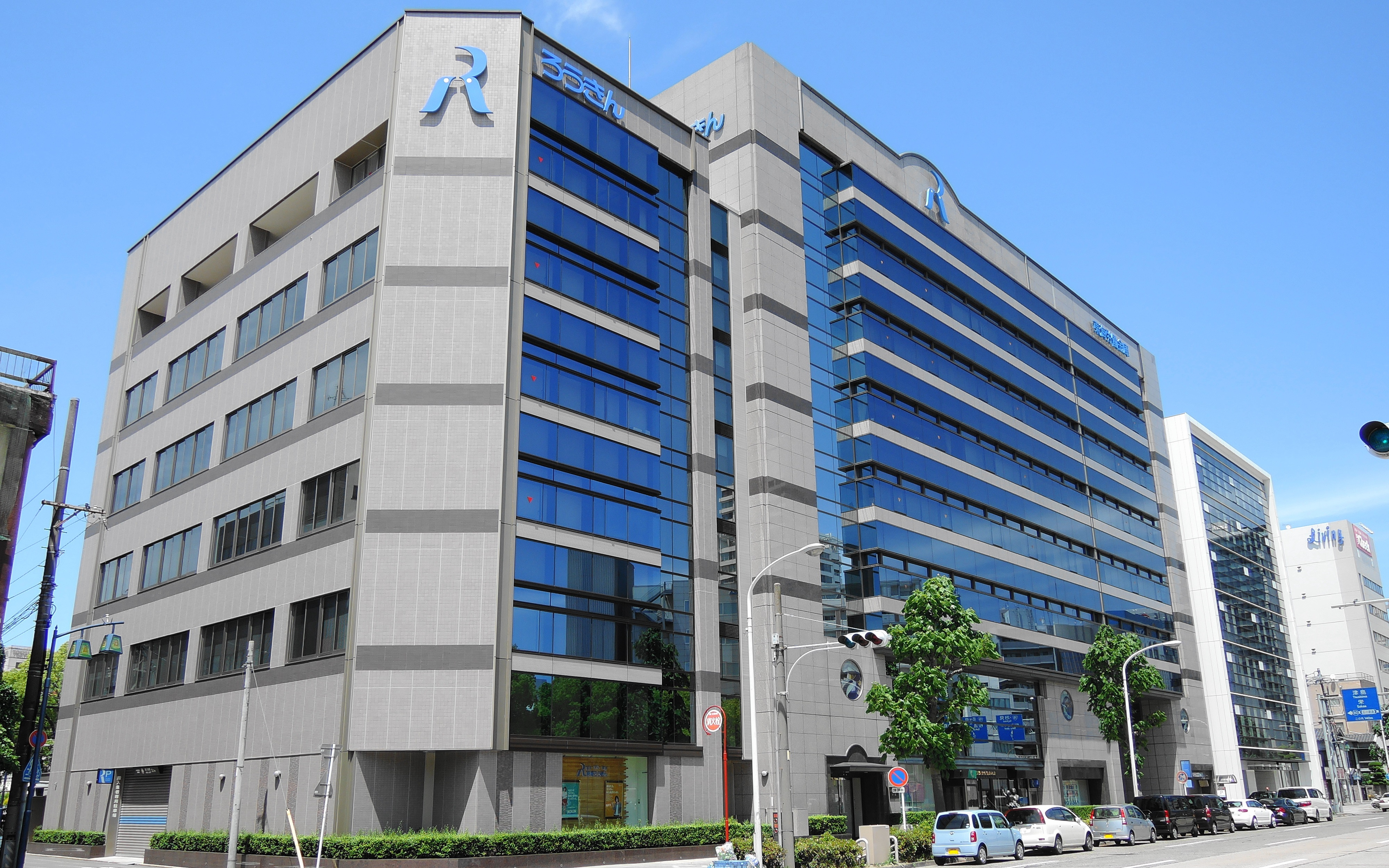 Head office of Tokai Labour Bank,Aichi prefecture,Japan